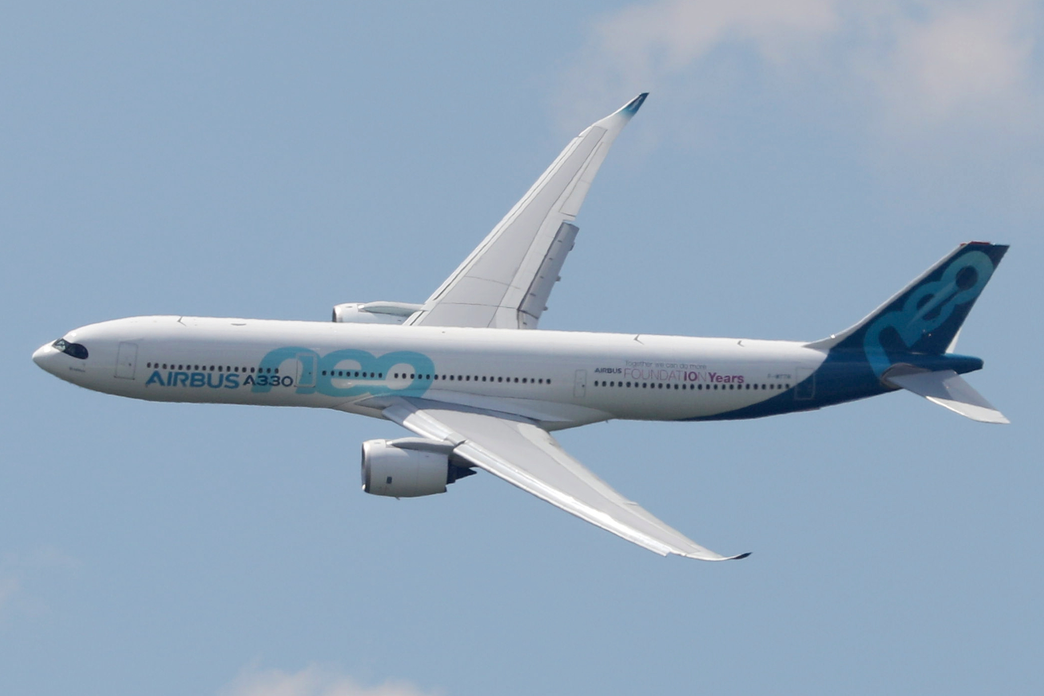 Paris Air Show 2019